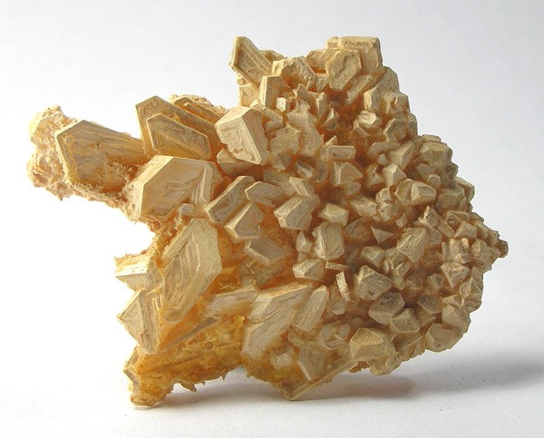 Thenardite, Mirabilite Locality: Boron, Kramer District, Kern County, California, USA (Locality at ) Size: 7.8 x 6.4 x 1.8 cm. This is a rareCalifornia specimen, a pseudomorph of thenardite after mirabilite (a hydrous sodium sulfate mineral). Mirabilite is found around saline springs and along saline playa lakes, with thenardite and other evaporites. Ex. Jim Minette Collection. From Rock Currier: "Those specimens showing the long prismatic mirabilite were collected by Jim Minette from the settling ponds out west of the big open pit mine. They take the mud slurry from the million gallon plus round dissolving tanks that are used at the refinery to dissolve the crude borax ore and run it into the settling ponds to settle out the fine mud/clay particles. Any water that is not evaporated naturally, they run back through the system. Sometimes the water in these ponds is saturated with sulfate and under the right temperature conditions, usually early in the morning, crystals of mirabilite grow rapidly in the ponds, and in the ones that Jim collated the mirabilite grew in prismatic crystals. Some of these had a little "iron" in them, so when the crystals dried out they were pink in color. Jim would put them on the bank of the pond and when they dried enough he would take them home and spray them with Krylon plastic to preserve them."